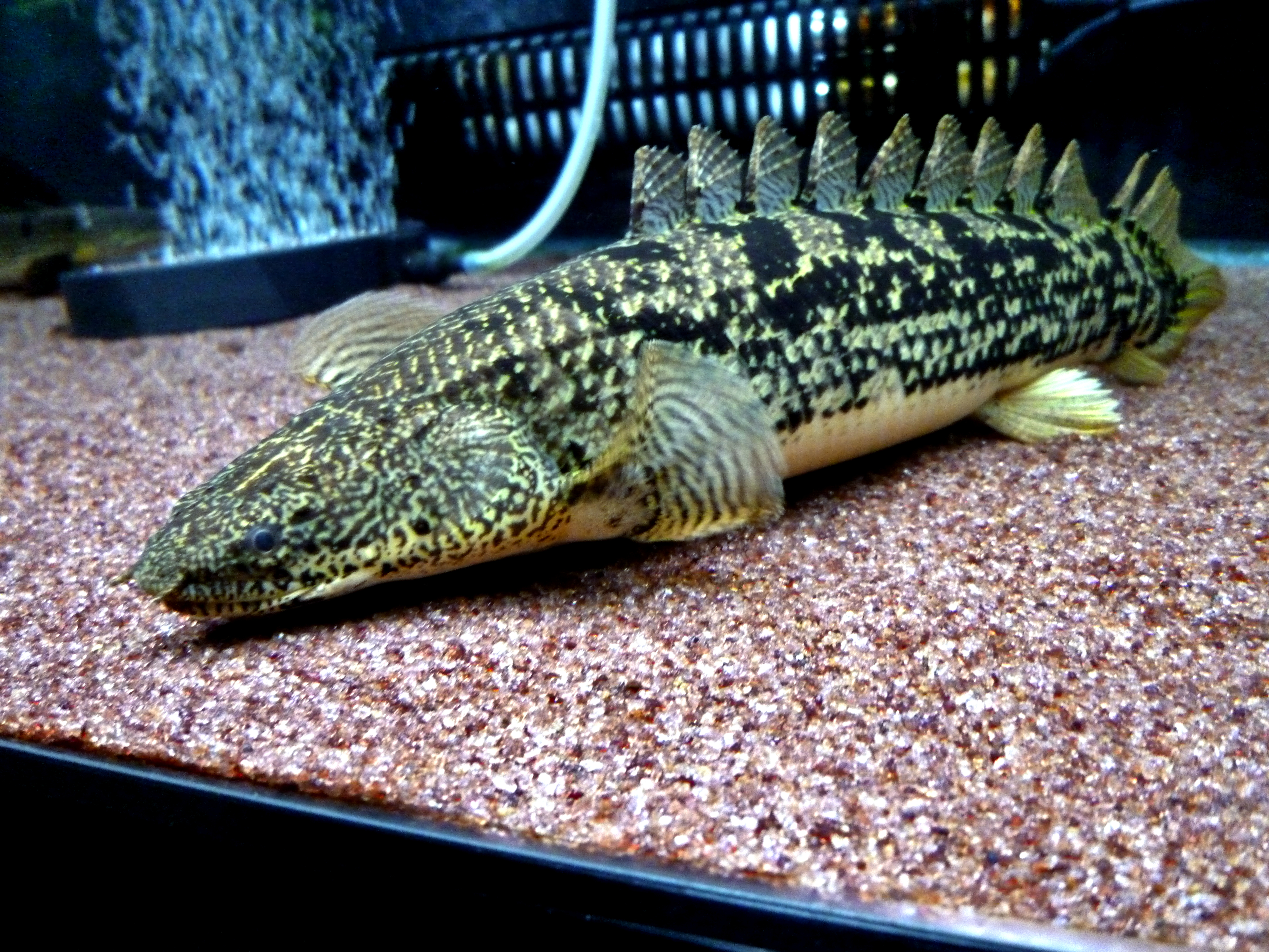 Polypterus delhezi